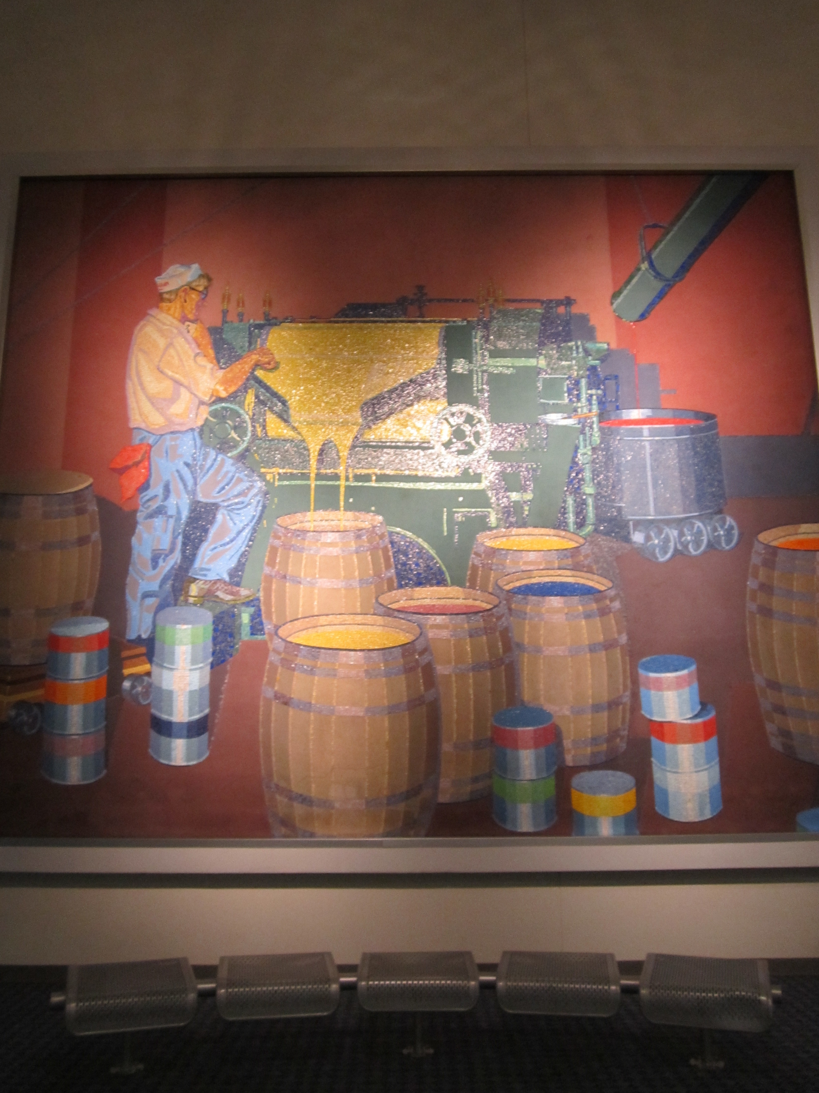 Located in Terminal 3, Baggage Claim